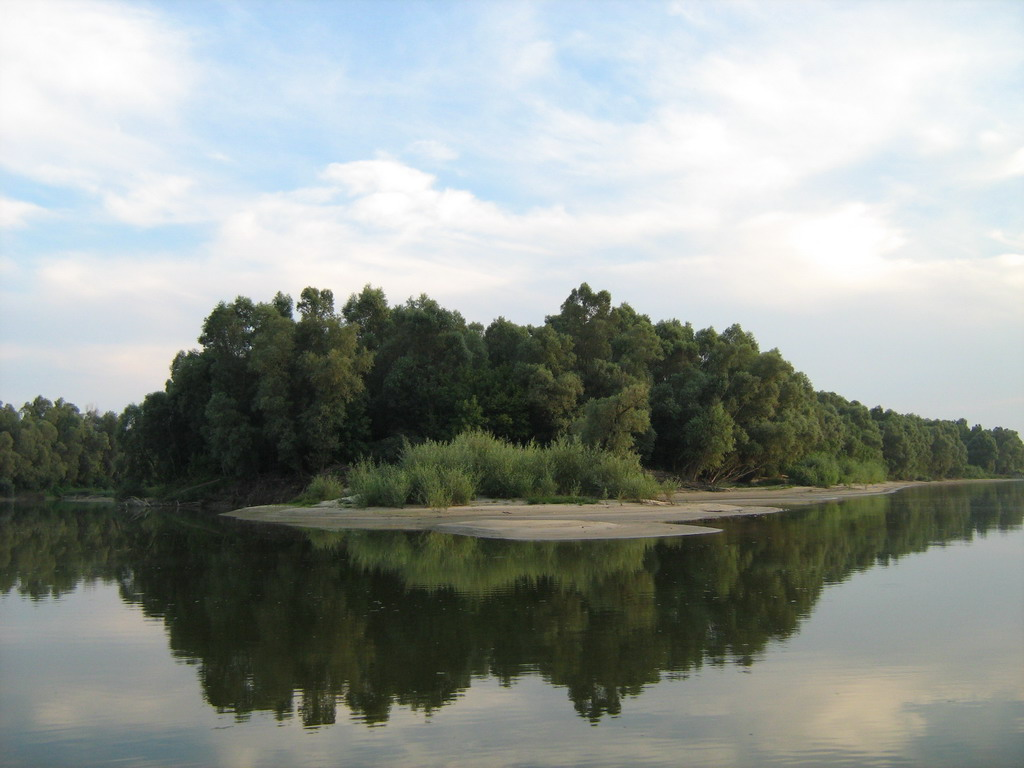 Special Natural Reserve near Apatin, Vojvodina, Serbia